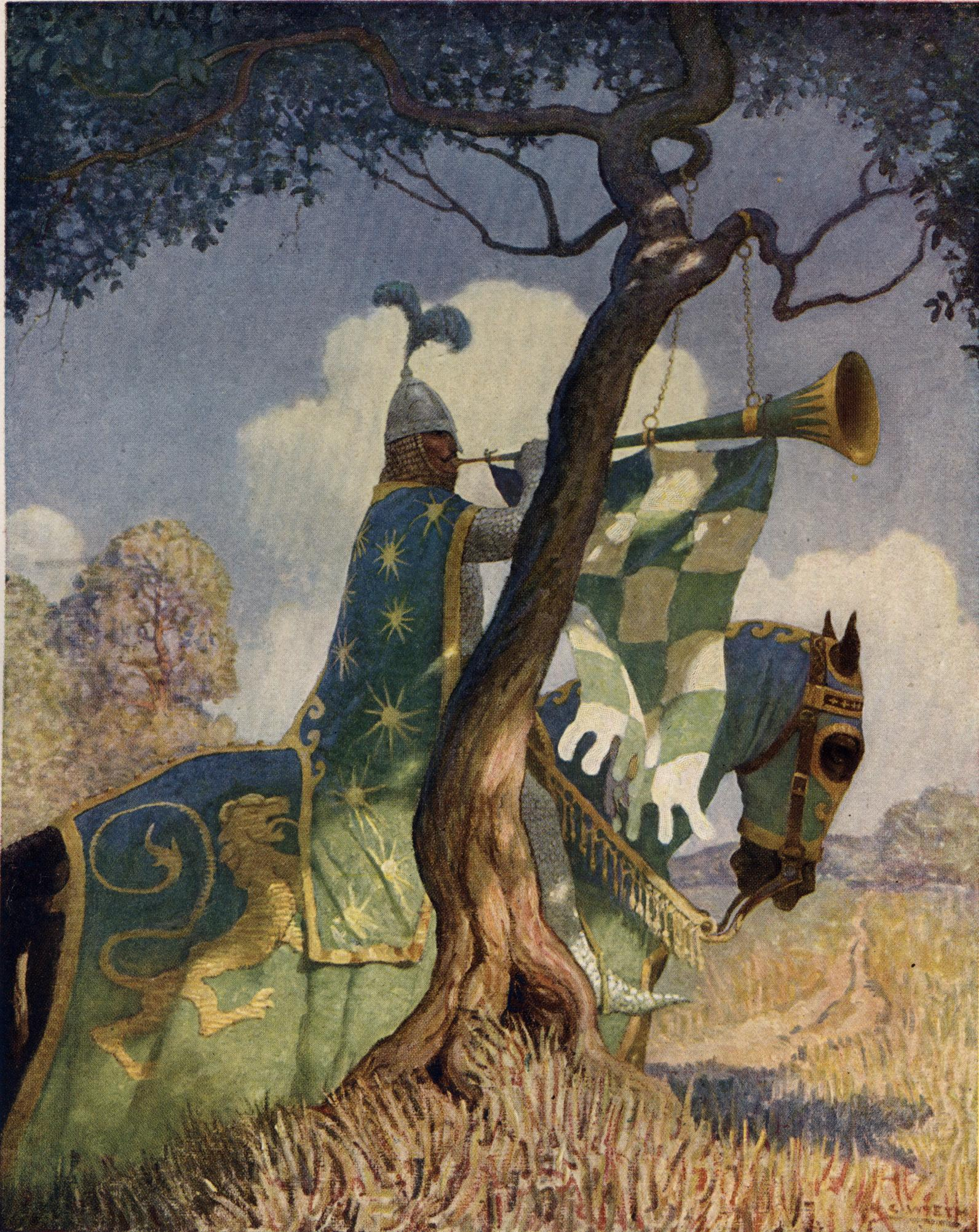 Illustration from page 82 of The Boy's King Arthur: the green knight preparing to battle Sir Beaumains - "It hung upon a thorn, and there he blew three deadly notes."